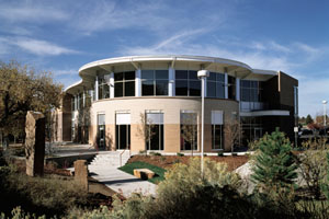 The Community College of Aurora's Student Centre Rotunda, found on the CentreTech Campus in Aurora, Colorado, USA.